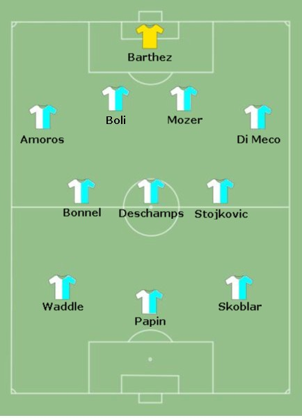 OM's Dream Team